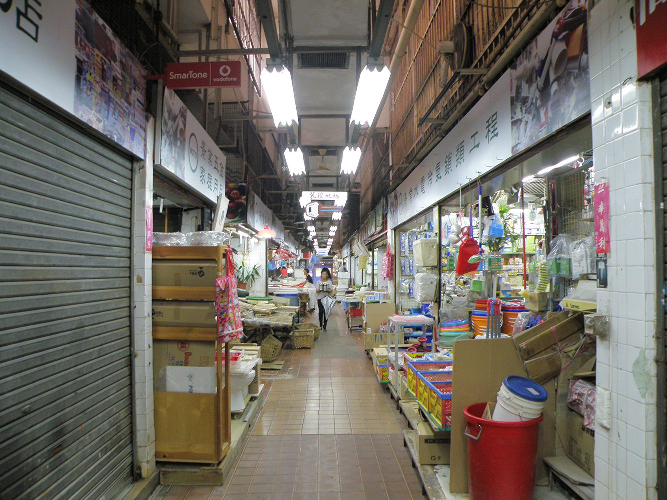 Ma On Terrace Market in Ma On Shan, Hong Kong.